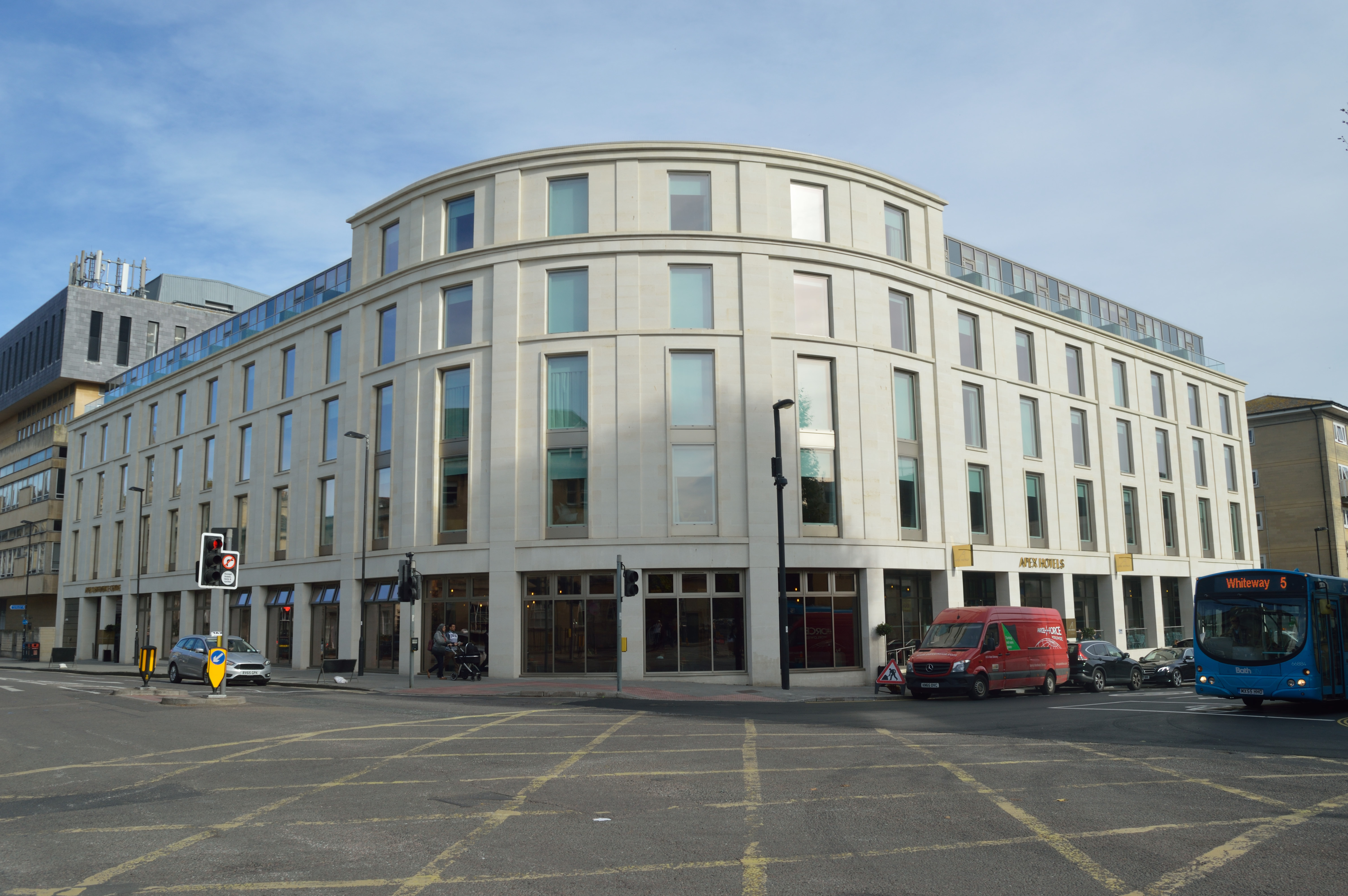 Apex City of Bath Hotel, in Bath, England. The hotel opened in 2018, and replaced the former DHSS tower block called Kingsmead House.